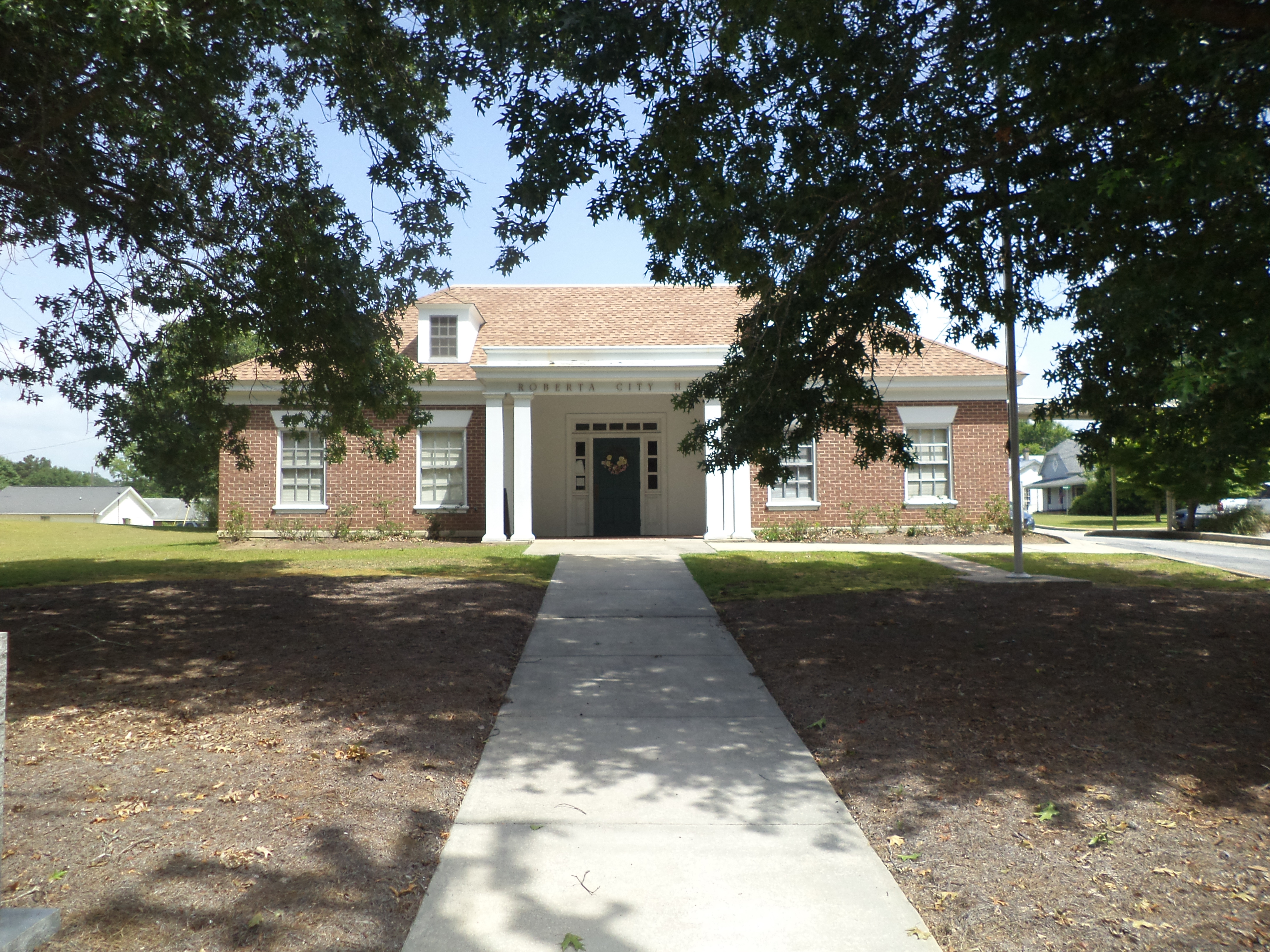 Roberta City Hall, 123 E Agency St, Roberta, Crawford County, Georgia